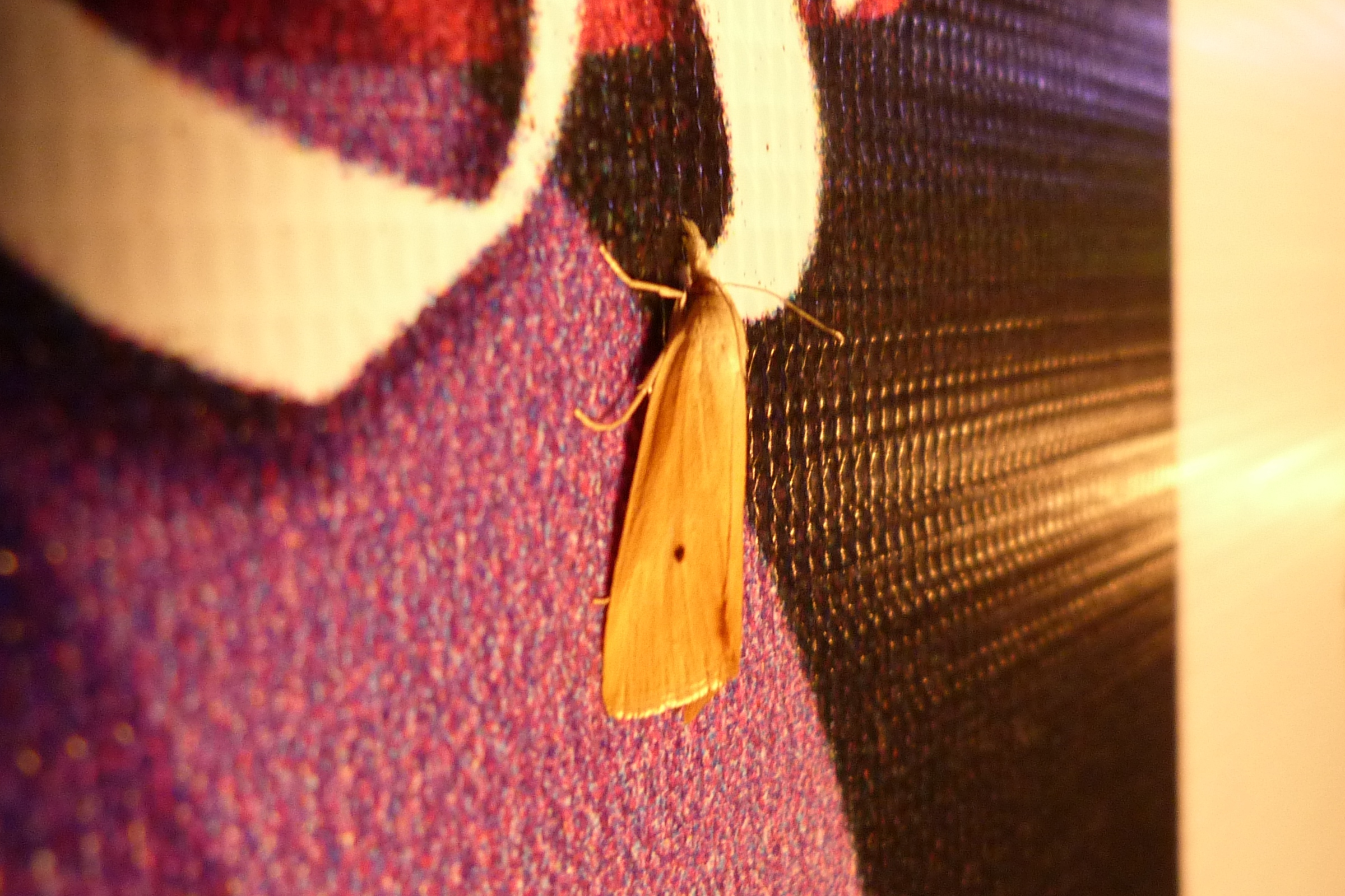 Scirpophaga incertulas (Walker, 1863), Yellow Stem Borer, Gachibowli Stadium, Hyderabad, India, 8 October 2012